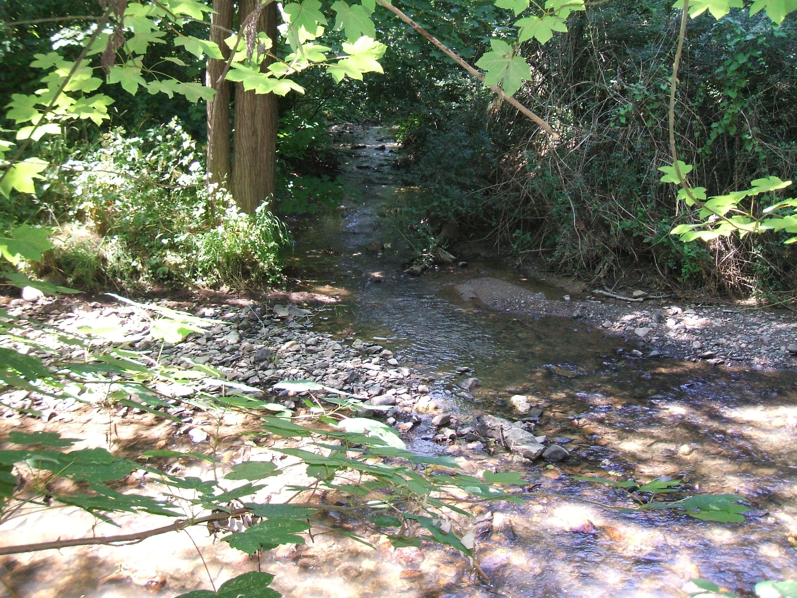 Confluence of Fauerbach into Usa